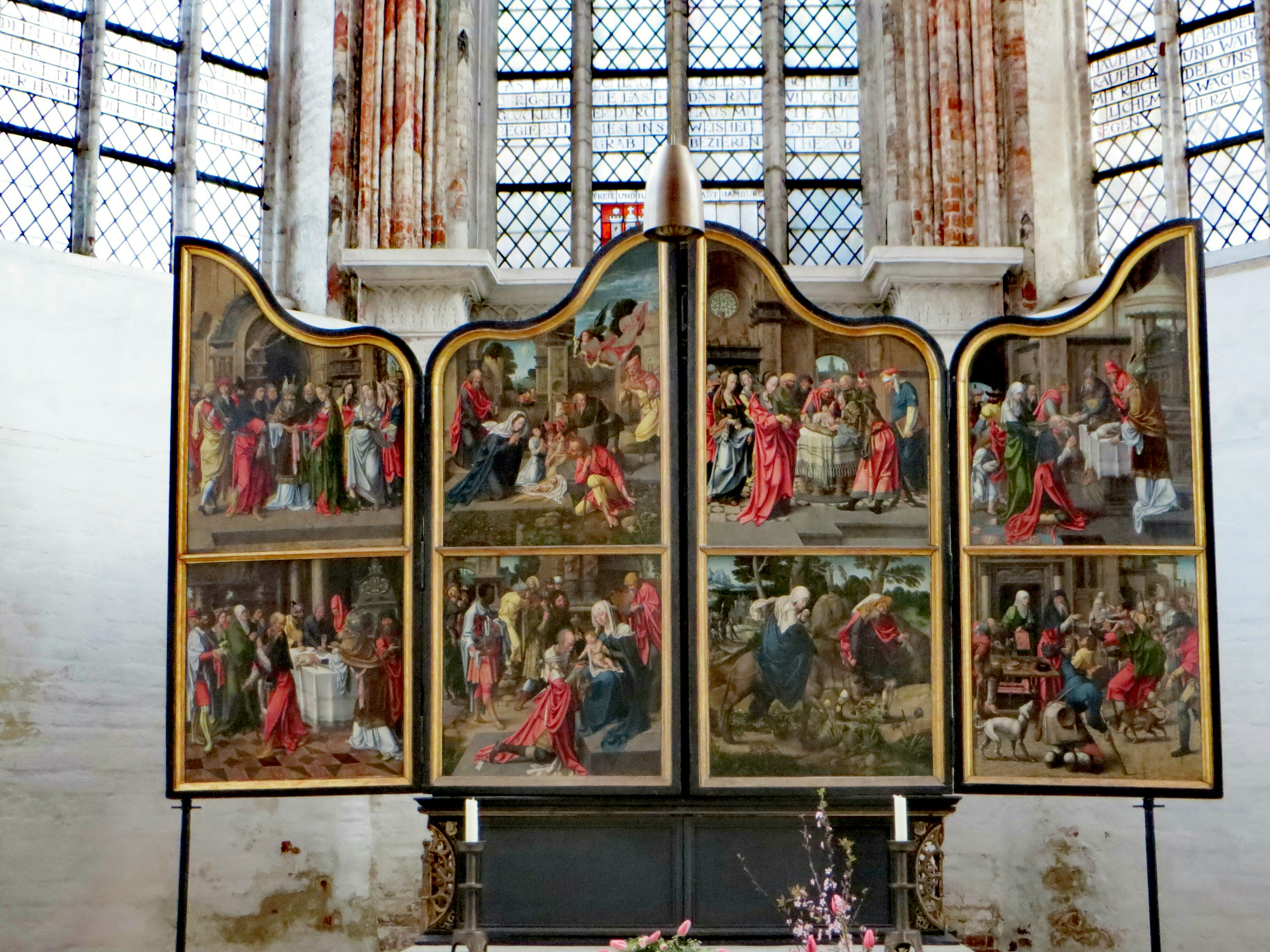 Antwerp Altar piece in Luebeck, paintings, second view (semi-closed)